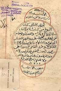 Page from Volume II of a manuscript copy of Da‘a’im al-Islam by Ibn Hayyun (also known as Qadi al-Nu‘man). Copied in 1098/1686 by Husayn b. Ahmad b. ‘Abd Allah al-Qari Ms 34 - The Institute of Ismaili Studies